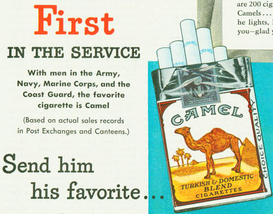 WWII-era cigarette ad. A woman sitting at a desk smoking writes a letter; beside her, a small boy pastes a war stamp into a booklet. Inset, a black-and-white image of a grinning young man in uniform sitting on a bed in a tent smoking and reading a letter; next to him, an opened paper-wrapped package that apparently just contained a carton of cigarettes and the letter. Inset upon the inset, a picture of an open cigarette pack. In the bottom right corner, an icon-like ad saying "BUY WAR BONDS STAMPS" on a red-white-and-blue shield. Text (shortened to avoid repeating the "favorite in the service" claim thrice)"Today we bought a War Stamp for Bobby -- and Camels for you!" Next to those precious letters you write that tell them how you are and what you're doing... the thing men in the service want most from home is cigarettes. When you send cigarettes, remember, the favorite brand in all the services -- with men in the Army, the Navy, the Marines, the Coast Guard -- is Camel. ...elipsis in transcription... WHEN "MAIL CALL" brings a carton of 'Camels -- it's always good news from home! ...elipsis in transcription... (There are 200 cigarettes in a carton of Camels... and with every one he lights, he'll be thinking of you... glad you thought of him) ...elipsis in transcription... Send him his favorite... Camels